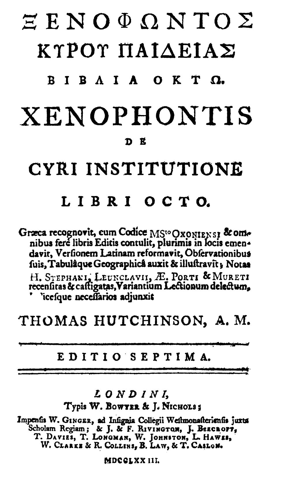 first page from book